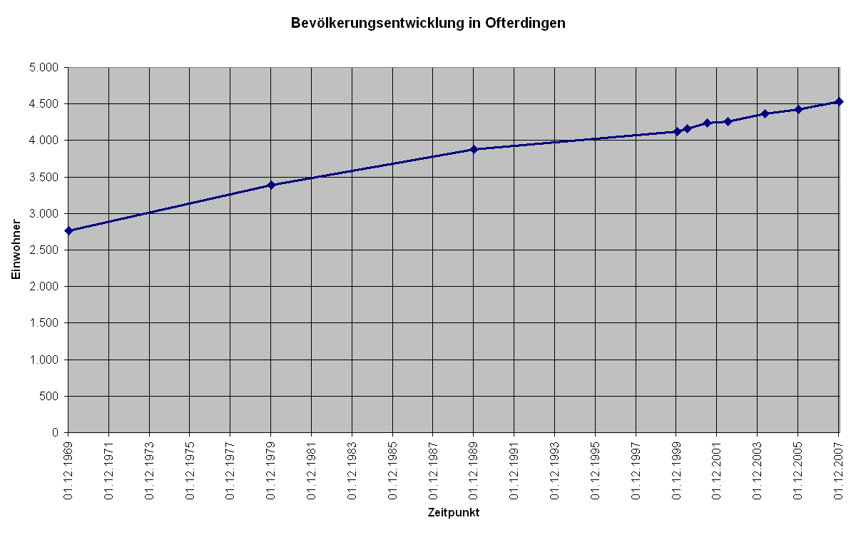 Graph of the growth of Ofterdingen (Germany)